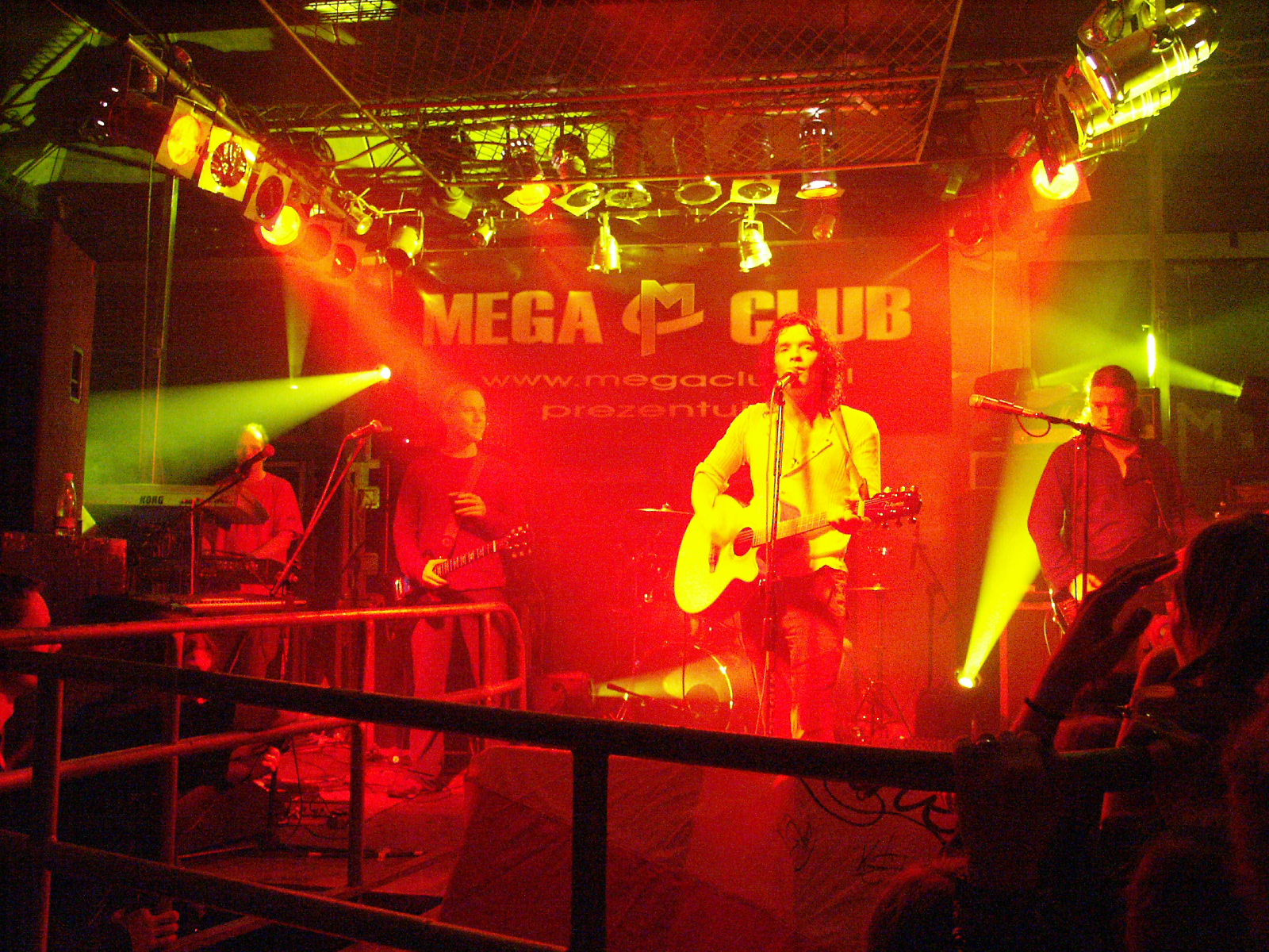 Anathema band at a concert in Mega Club in Katowice, Poland 2004 - from left: Les Smith; Daniel, Vincent & Jamie Cavanagh